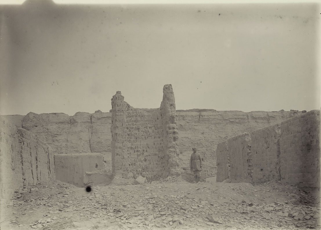 Ruin K.K.ii. At Kharakhoto from east, 30 May 1914.